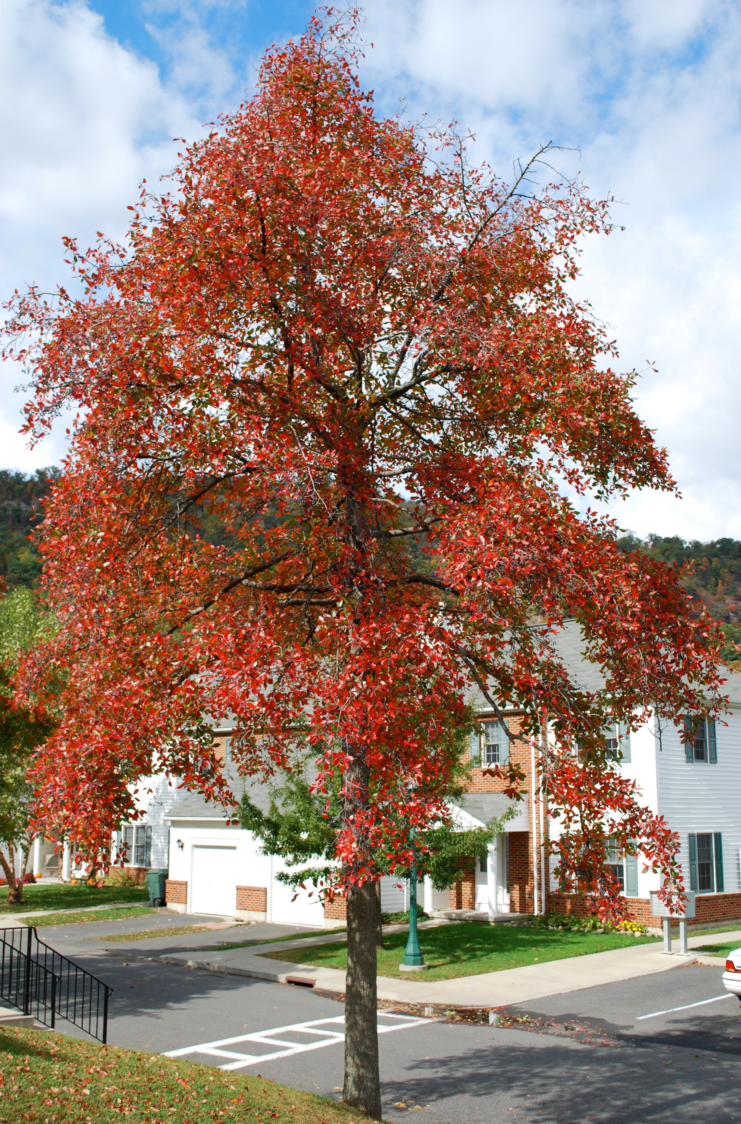 A Black Tupelo in early fall color at West Point, NY